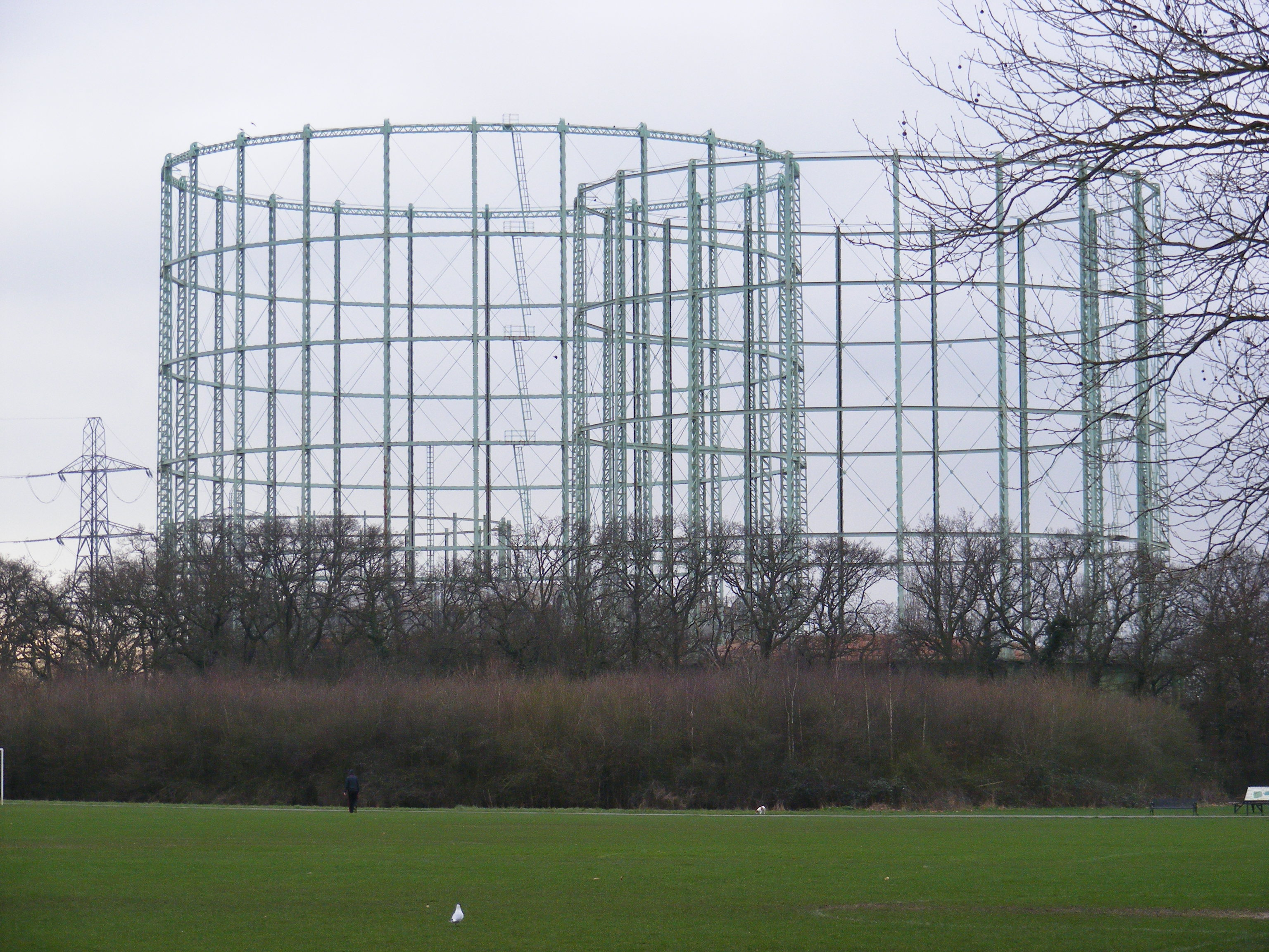 Large gas holders at Motspur Park , South London